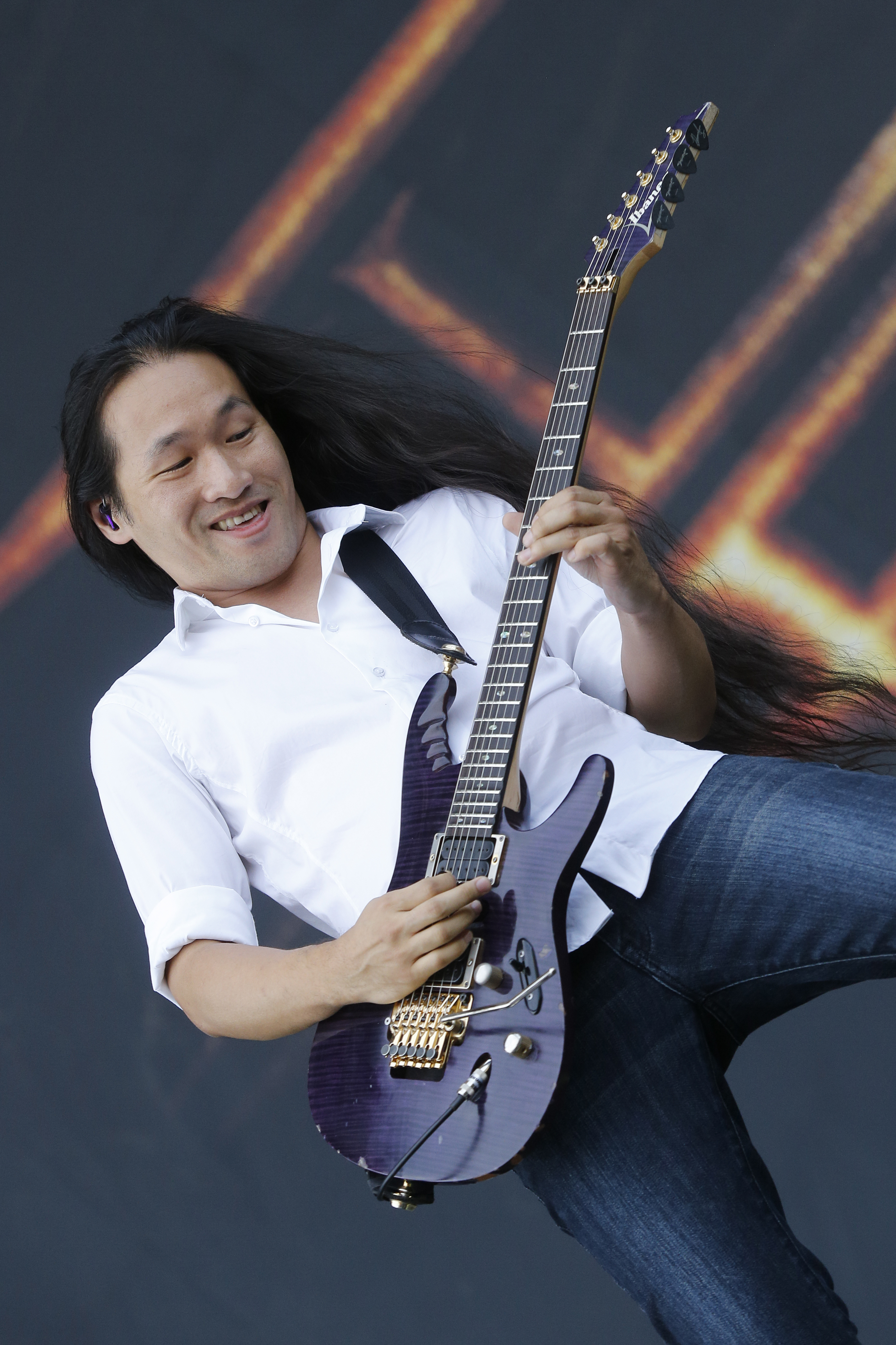 Herman Li, guitarist and producer of DragonForce at Nova Rock-Festival 2013.